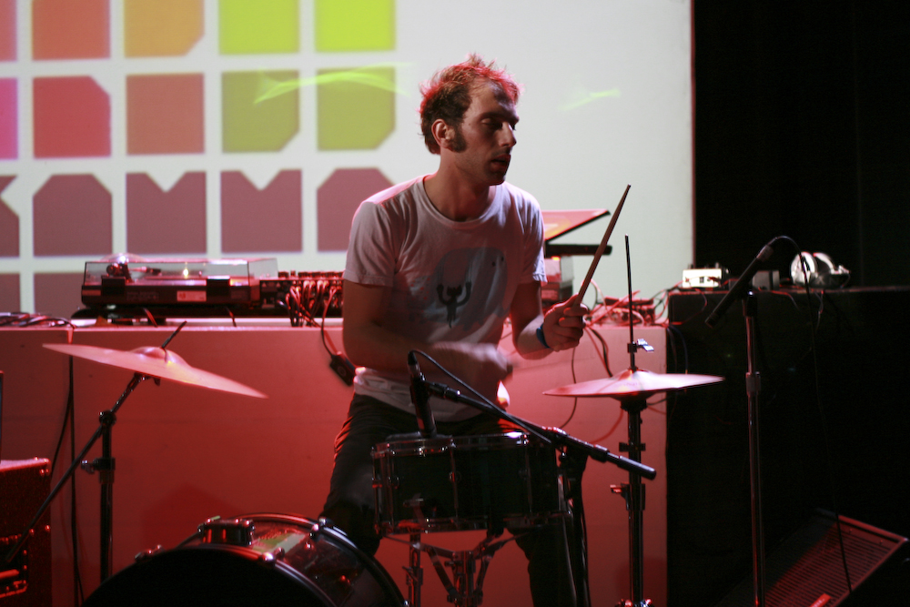 November 28, 2007